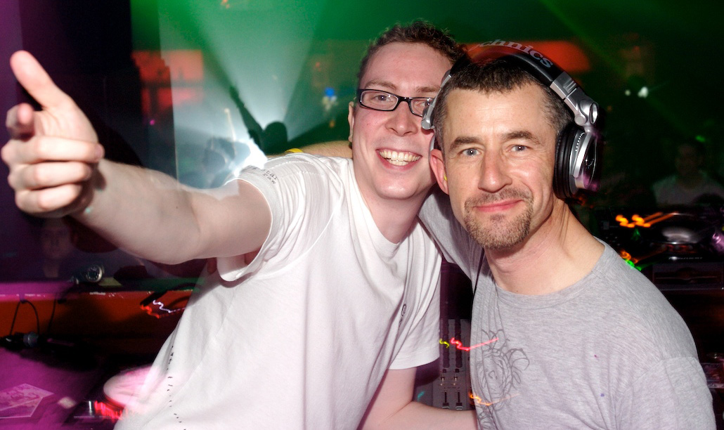 Paavo Siljamäki and Tony McGuinness of Above & Beyond at the Pacha club in New York.